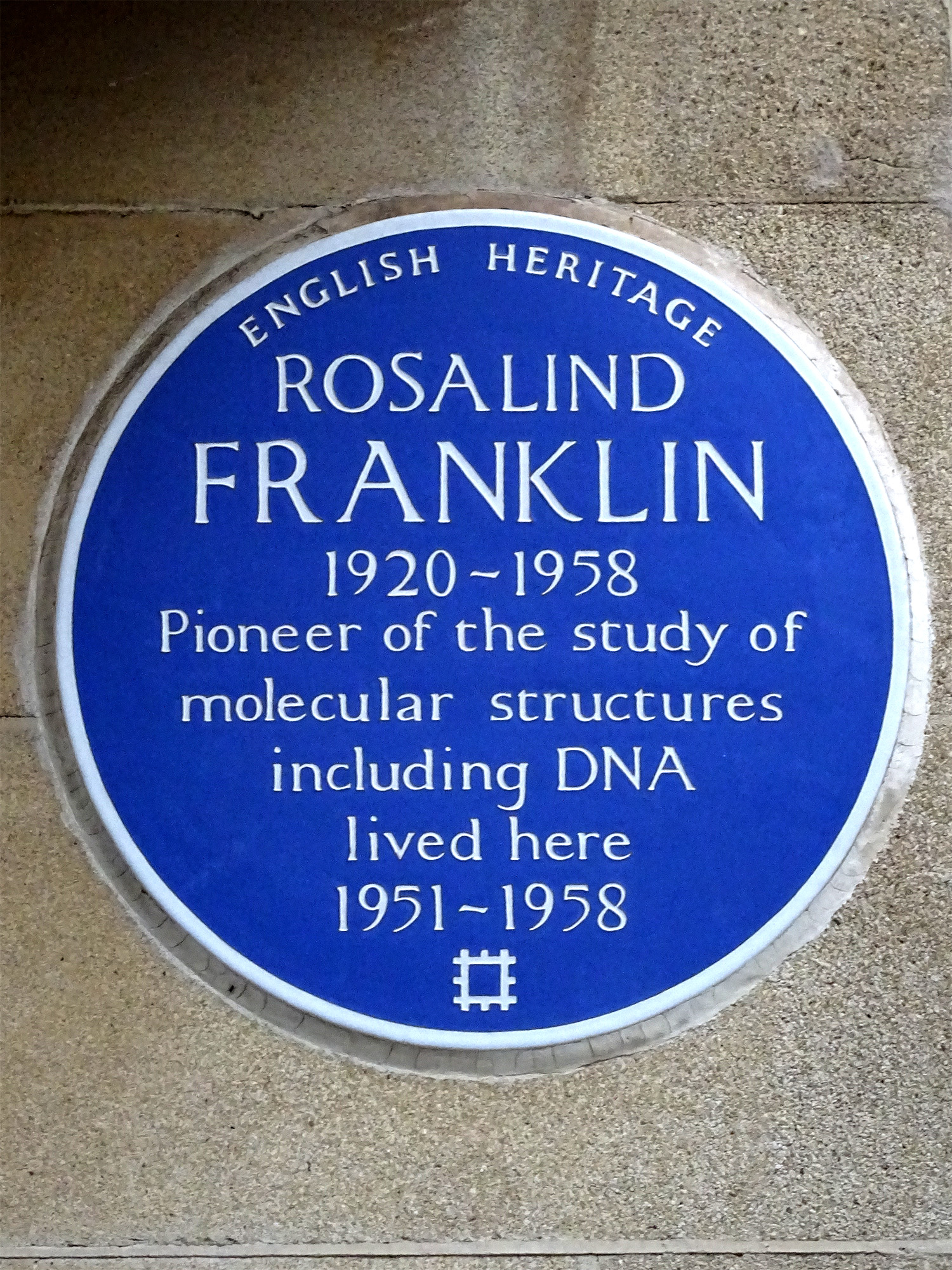 Blue plaque erected in 1992 by English Heritage at Donovan Court, Drayton Gardens, Chelsea, London SW10 9QS, Royal Borough of Kensington and Chelsea